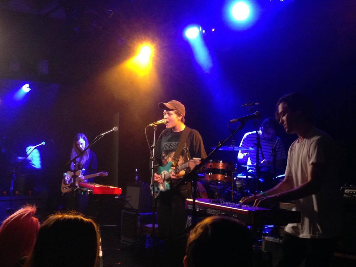 Cub Sport live in concert.